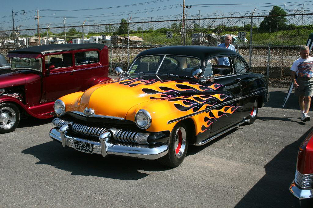 Owner: James Whitesal, Oxford, PA